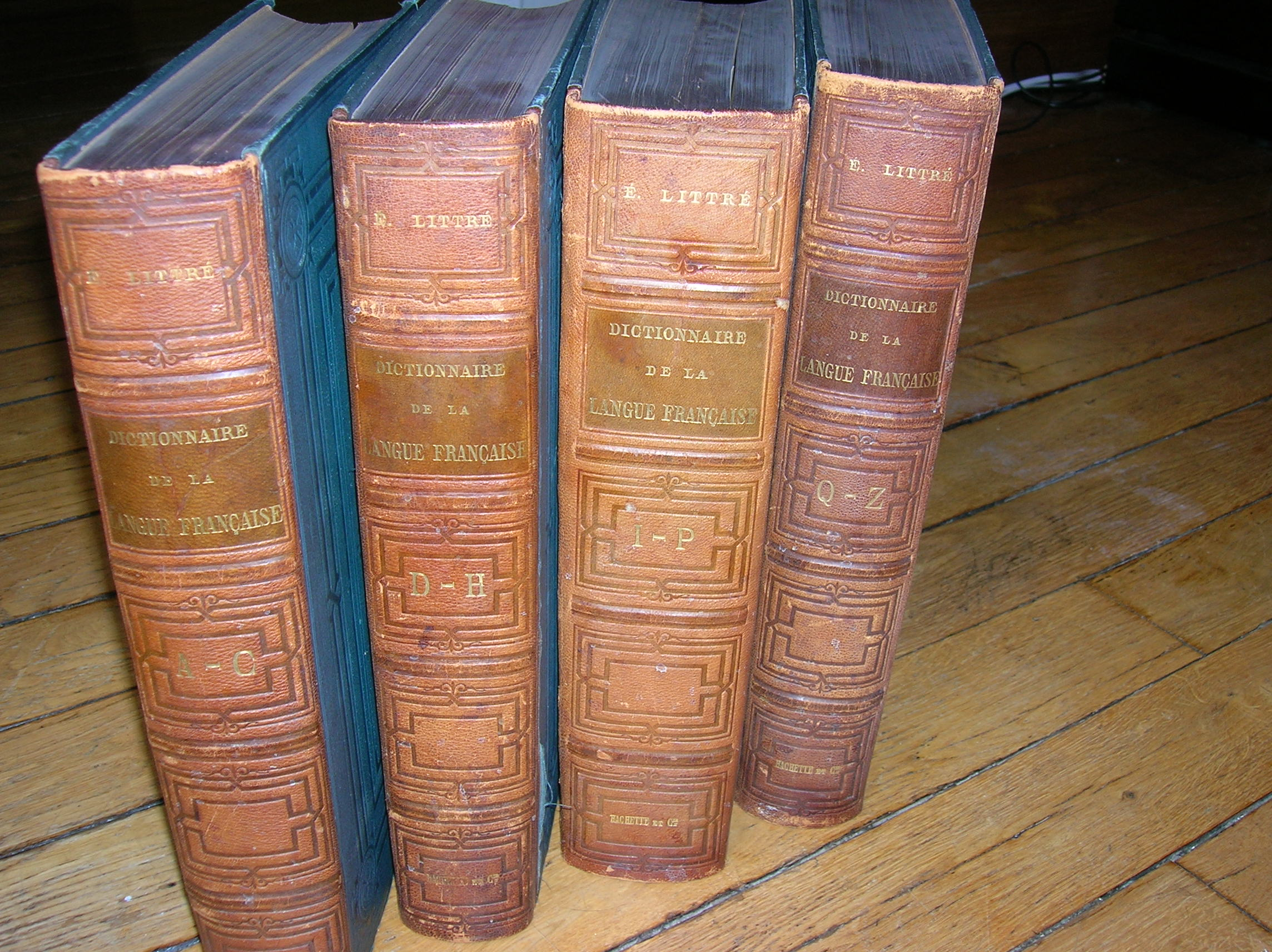 Littré Dictionnary edition 1889